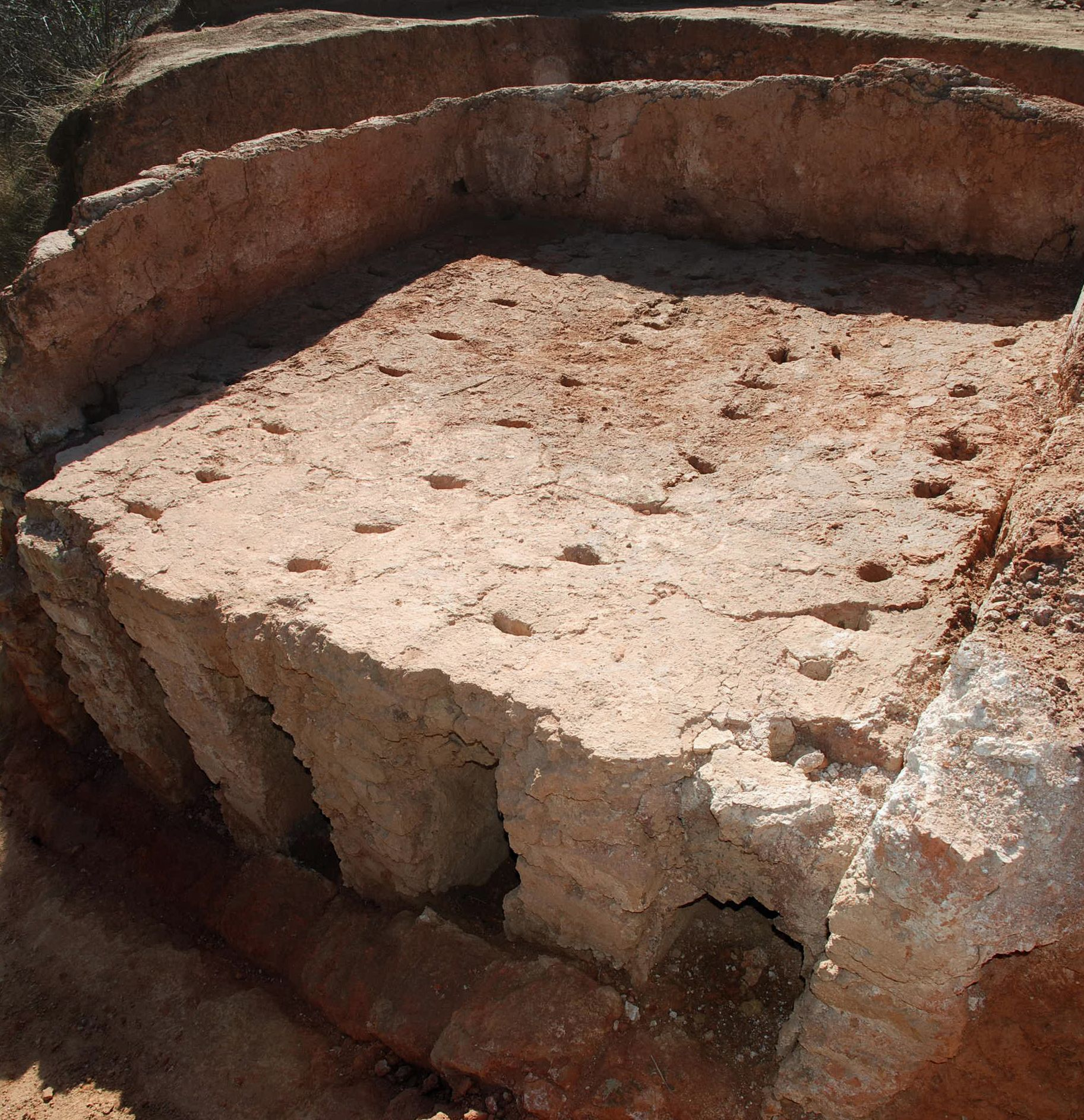 Archaeological excavation of urgency of the Roman kiln found in Abia de las Torres (Palencia, Castile and León). This is a unique example of High roman empire kiln in the North plateau.